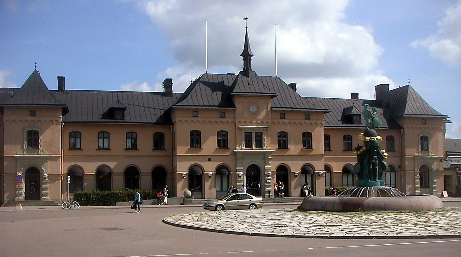 Uppsala, central train station.